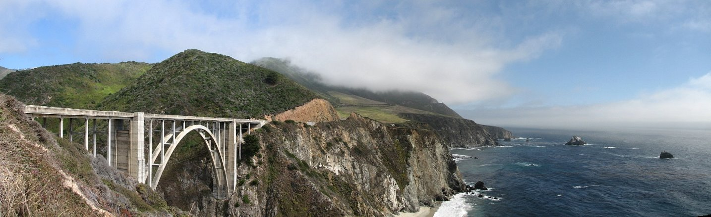 Panoramic Shot of the Bixby Creek Bridge — on the Pacific Coast Highway—California State Route 1. Located in Big Sur — Monterey County, California.